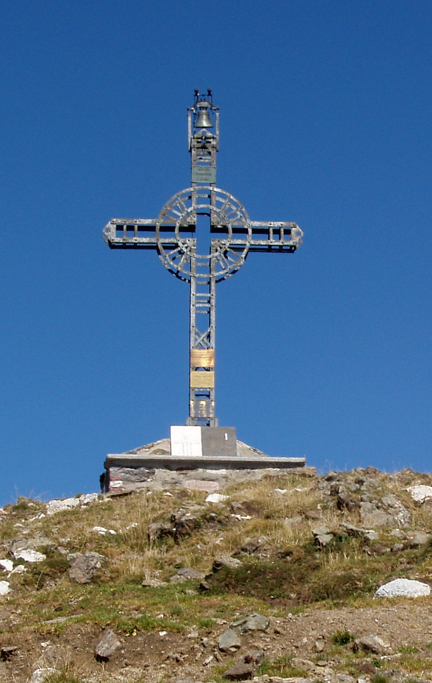 The summit cross of Monte Massone (Pennine Alps, Italy)